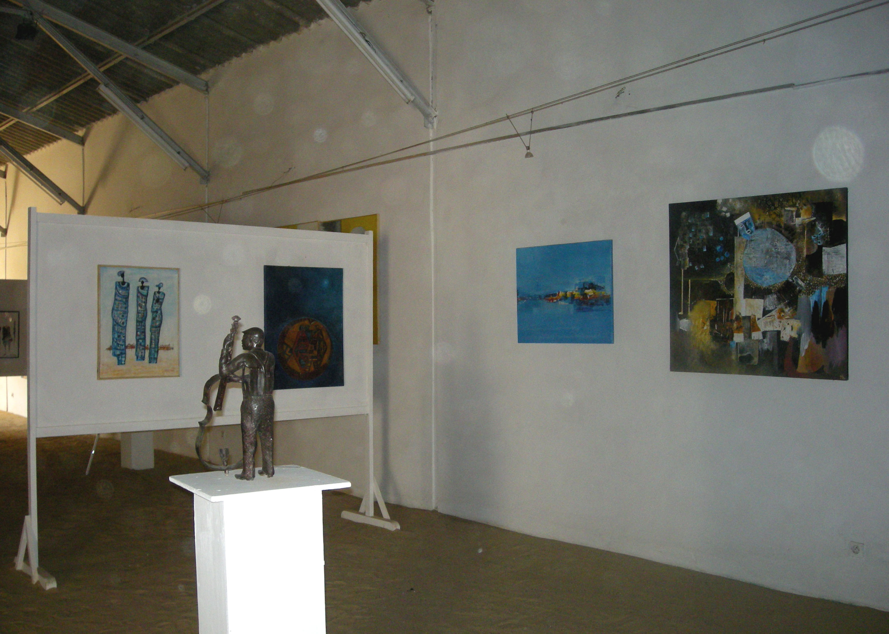 Exhibition at Village des Arts (Dakar, Senegal)